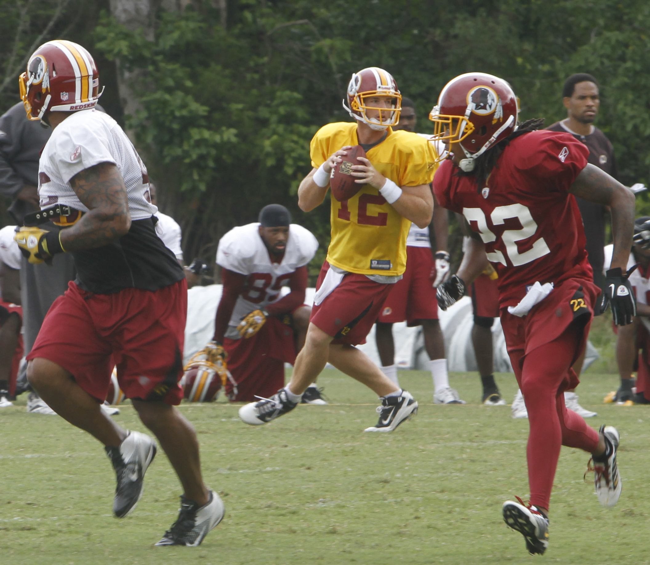 Kevin Barnes at Washington Redskins Training Camp August 15, 2011